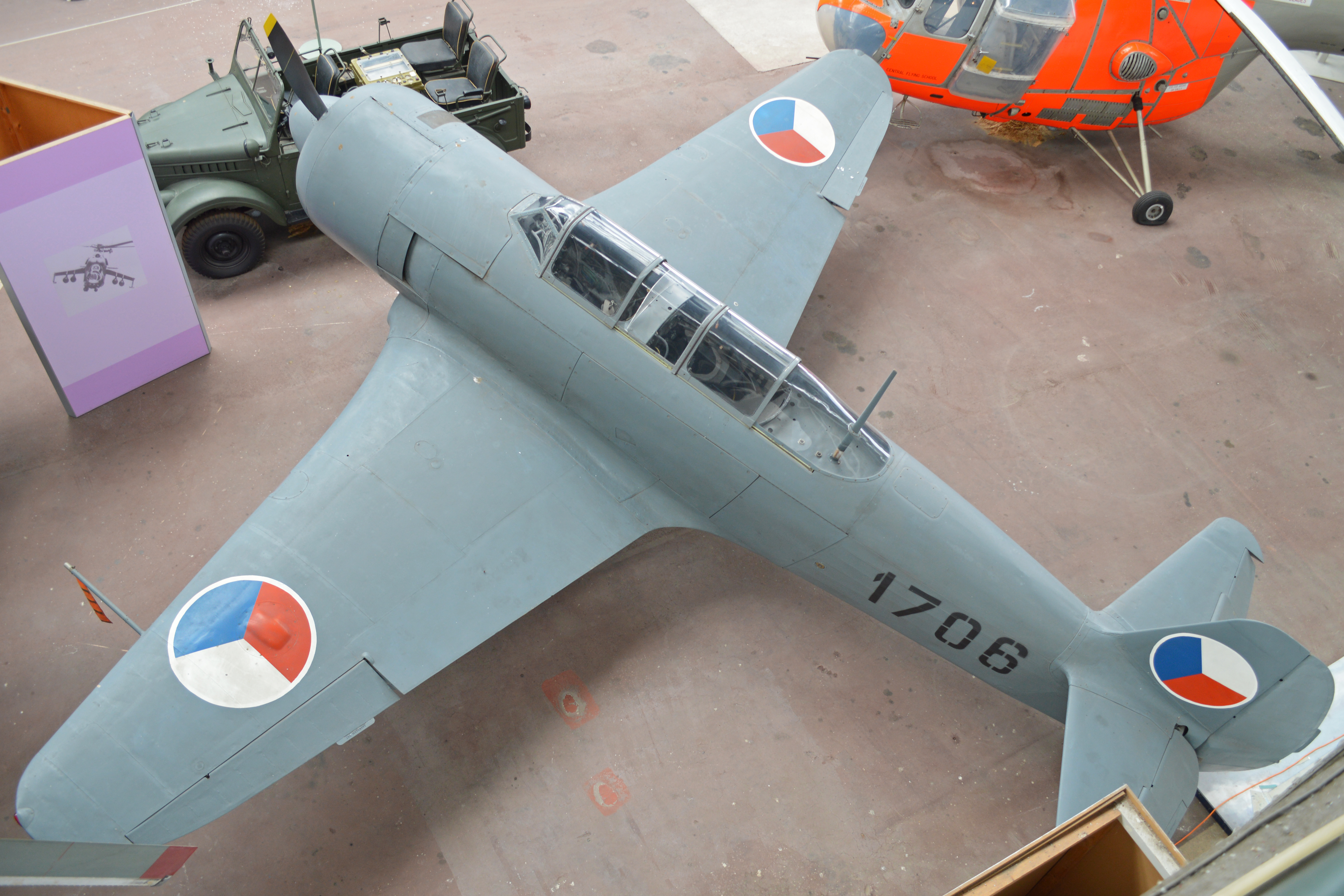 c/n 171317. Actual Czechoslovakian Air Force serial ‘1317’. On display at what is known as the Brussels Air Museum, although it is actually the Air and Space Section of the Royal Museum of the Armed Forces and Military History. Brussels, Belgium. 26th June 2016